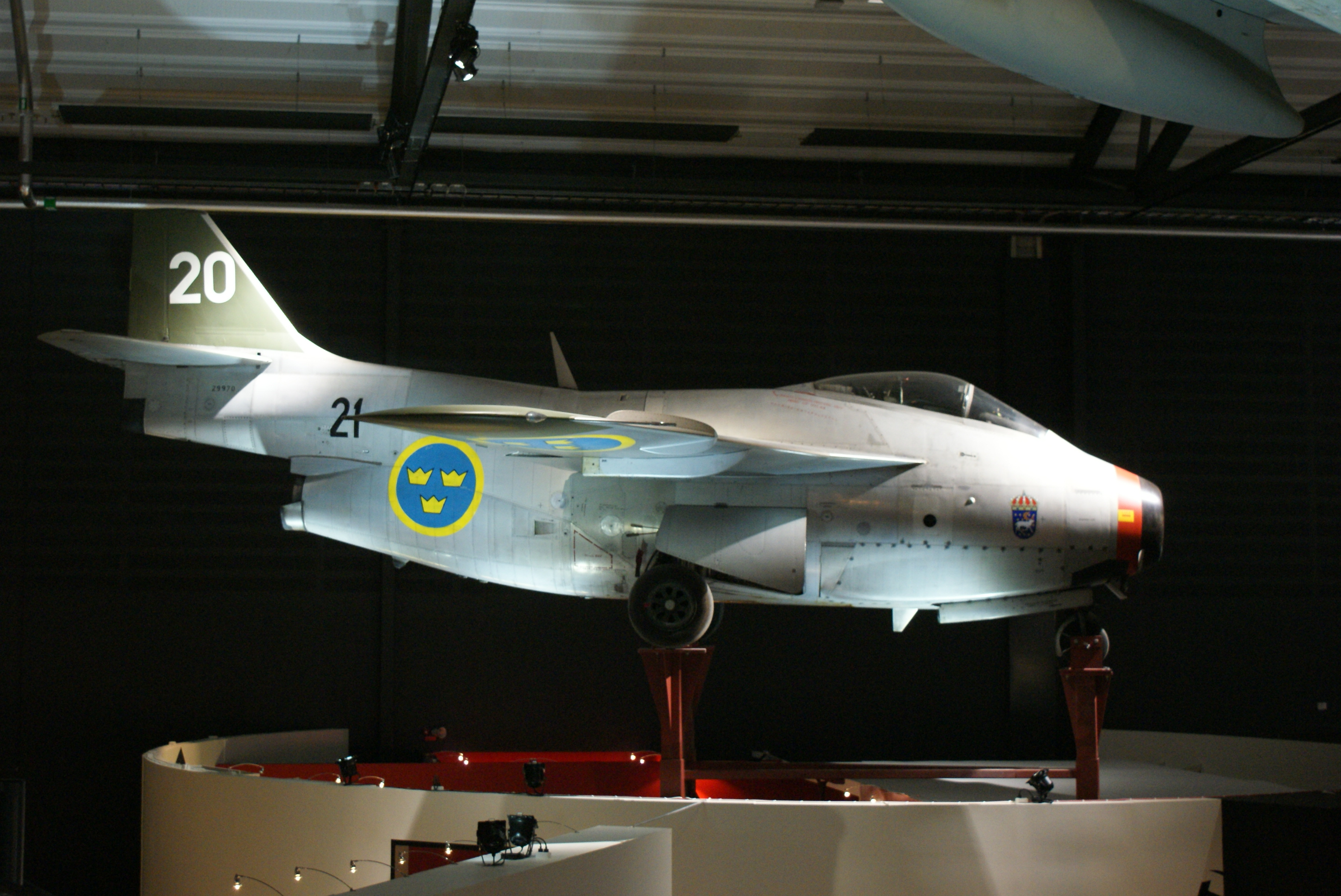 SAAB S 29C Tunnan on permanent display at the Swedish Air Force Museum in Linköping, Sweden